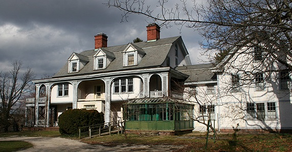 Description: This is an image of Cedarmere, William Cullen Bryant's estate in Roslyn, New York Source: This image was made by Robert Swanson (User:Ryssby)